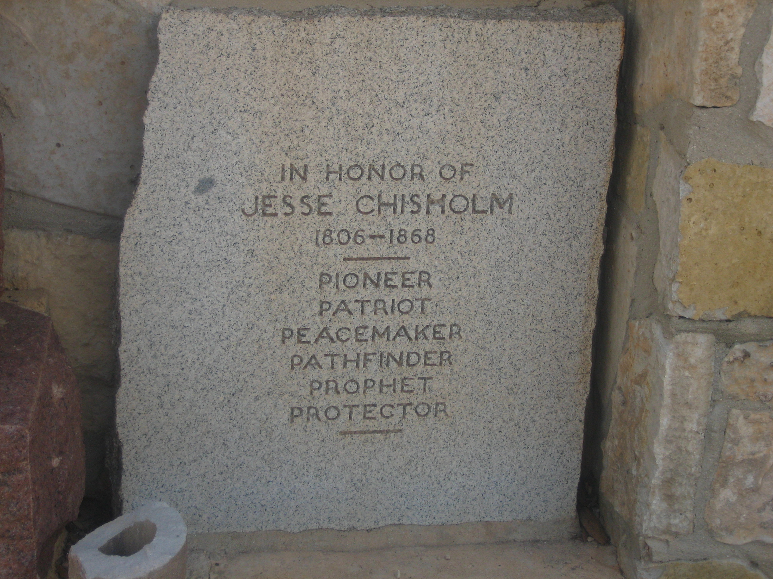 I took photo on July 19, 2008.Billy Hathorn (talk) 03:47, 4 February 2009 (UTC)